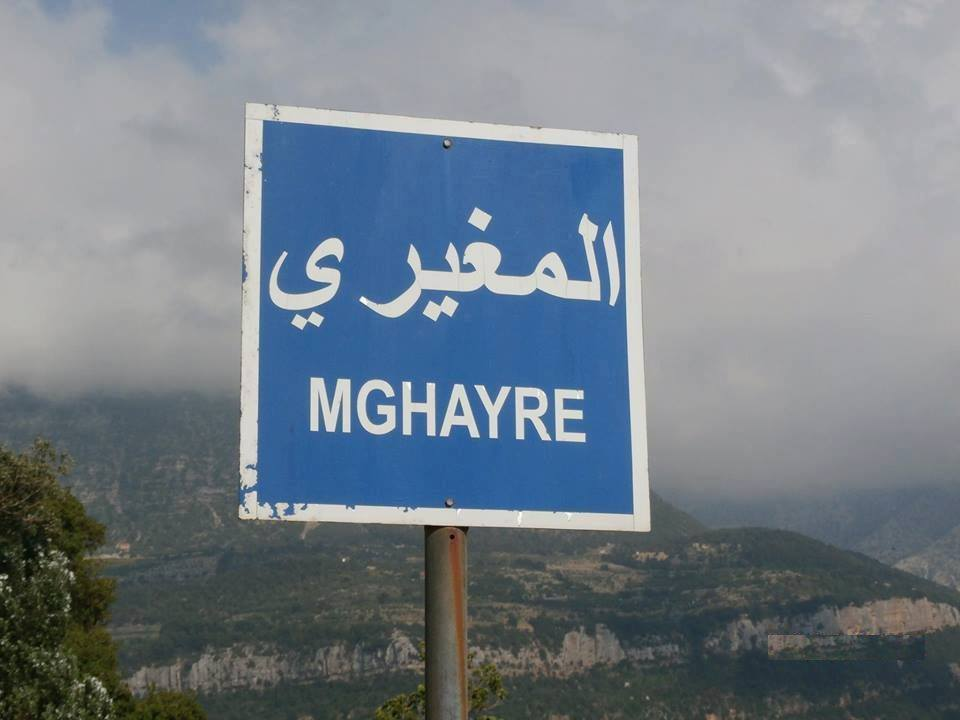 Qafár af: the official name